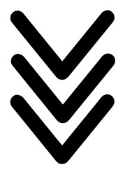 Laima Emblem embroidered in Latvia.